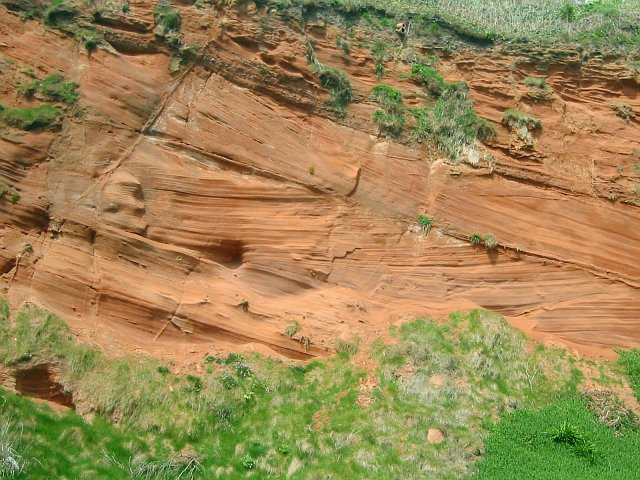 Cross-bedded Permian Sandstone. The sandstone exposed in the sea cliff above the railway line shows cross bedding patterns typical of rock formed from desert sand. These are the remnants of old sand dunes from around 300 to 350 million years ago.